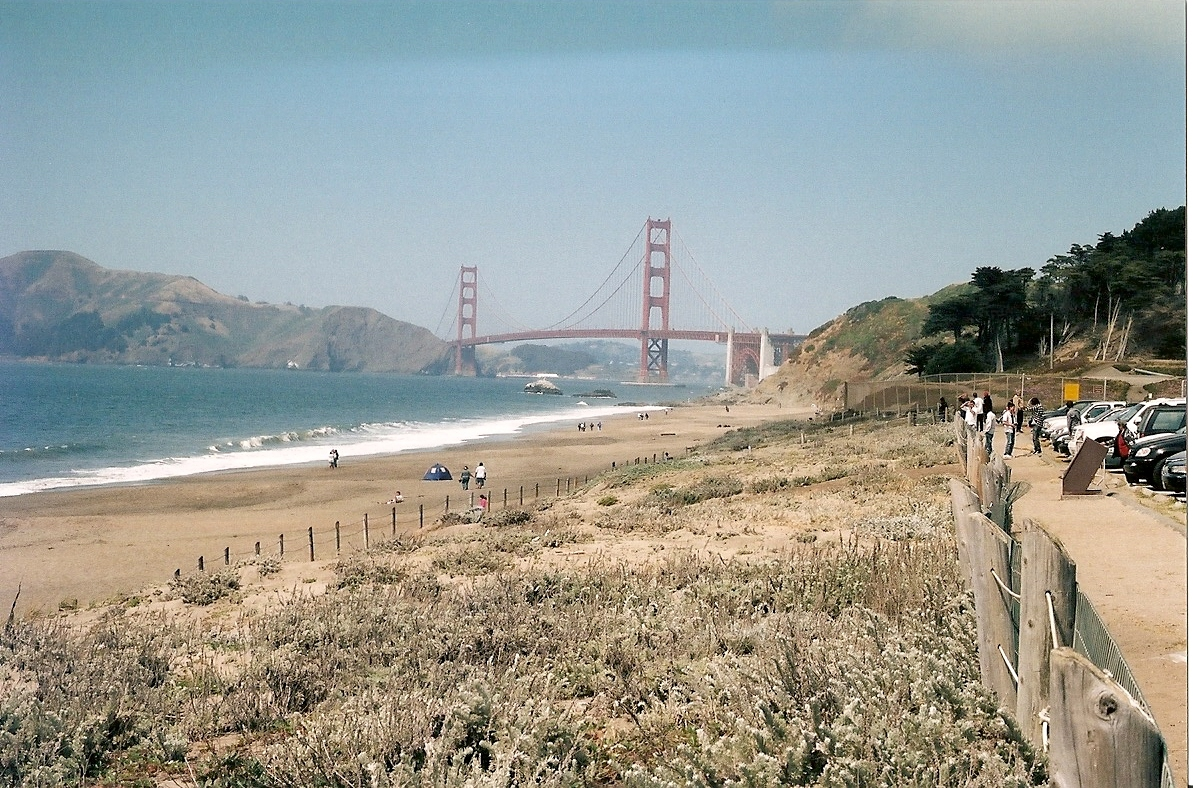 Baker Beach looking towards the Golden Gate Bridge.